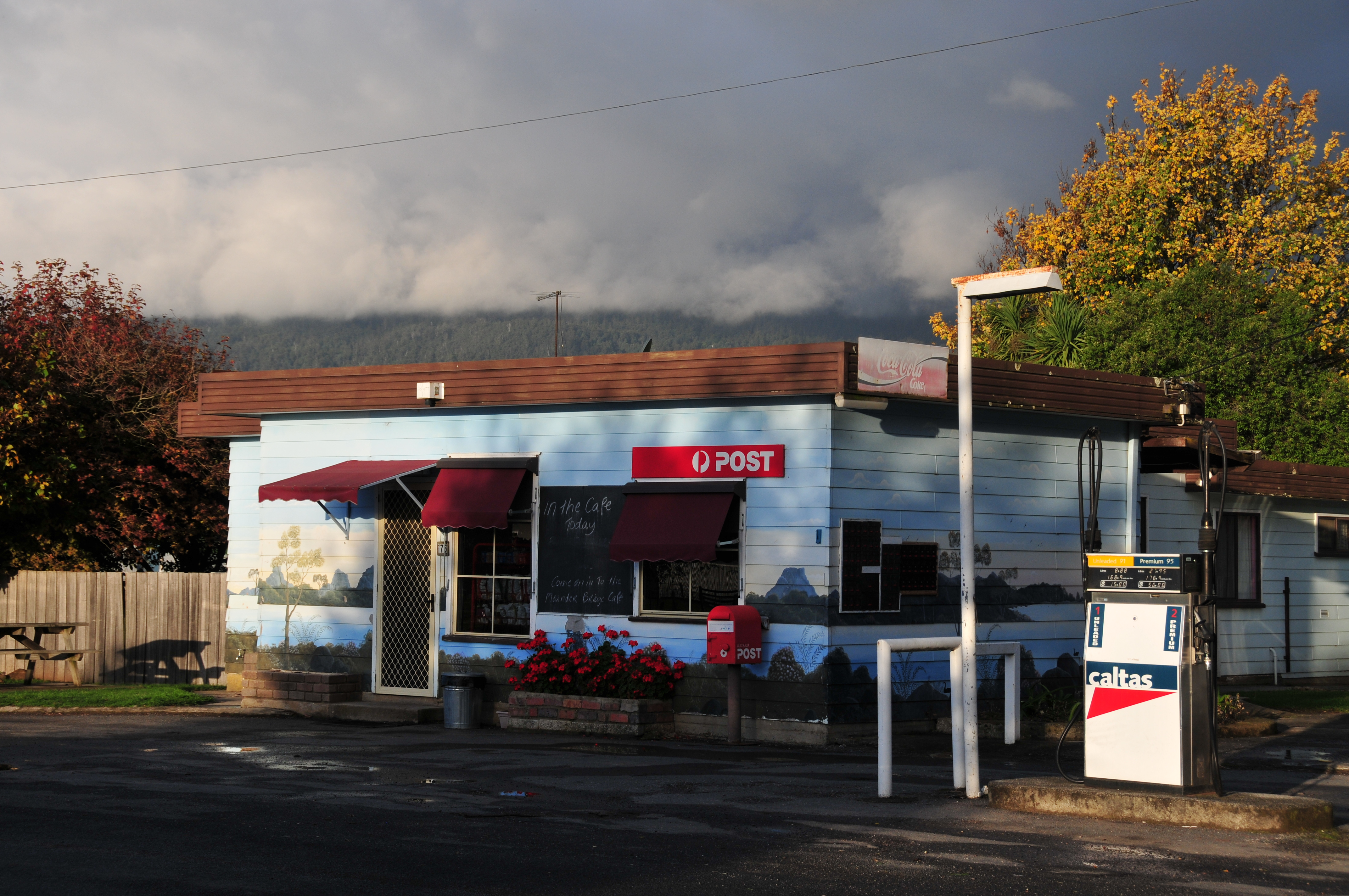 Store, Post office and petrol station. On the main road in Meander Tasmania